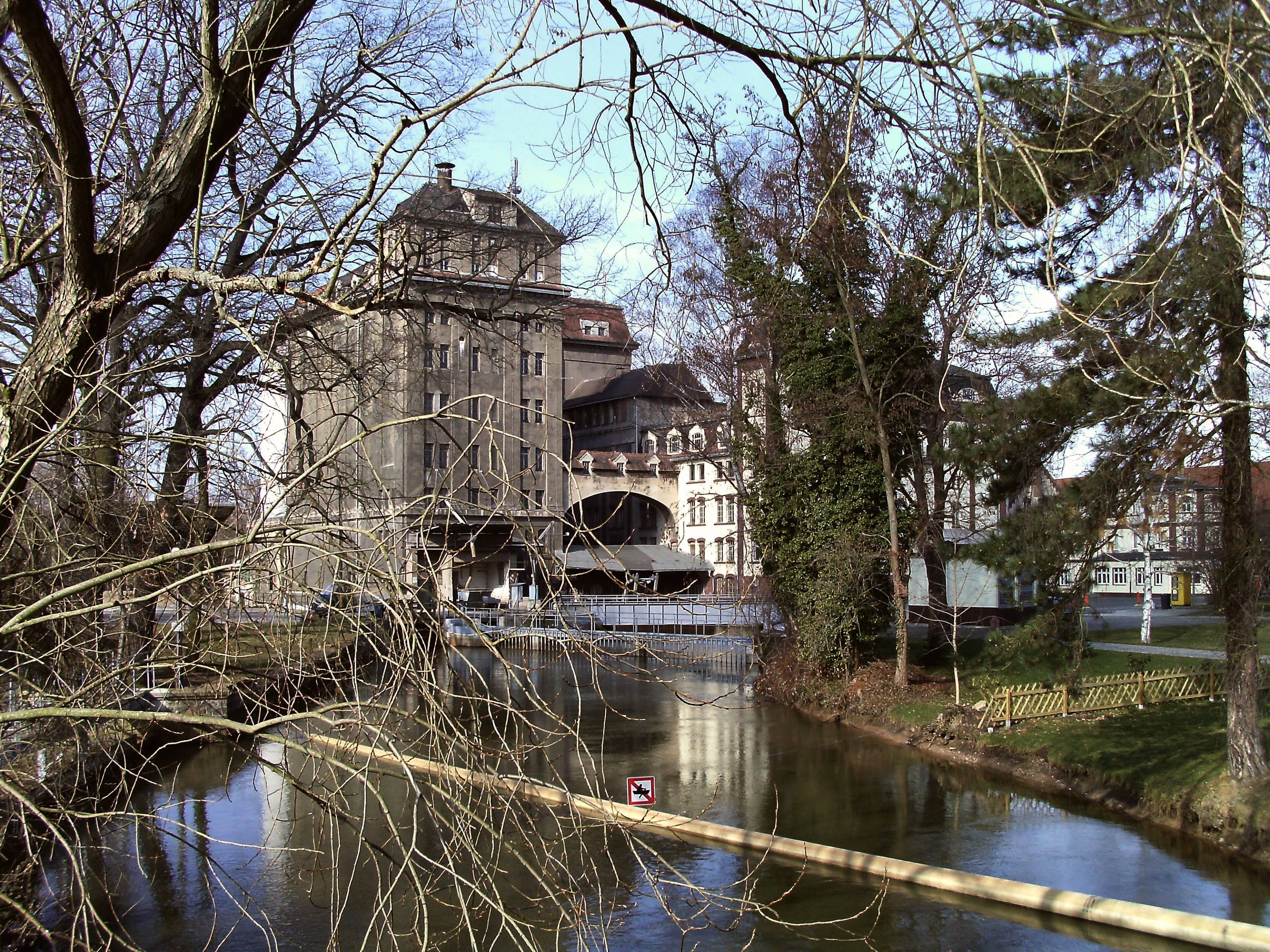 Weisse Elster river at Stahmeln mill (Leipzig, Saxony)